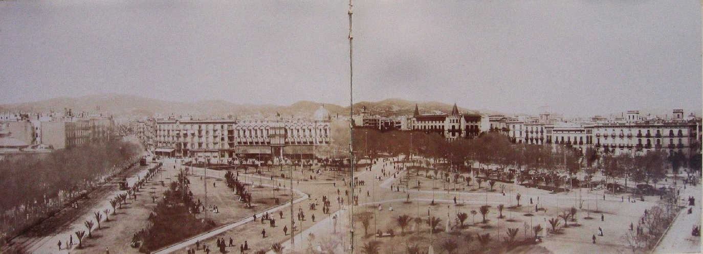 Barcelona - Plaza Catalunya, albumen photograph two part panorama 16*44cm